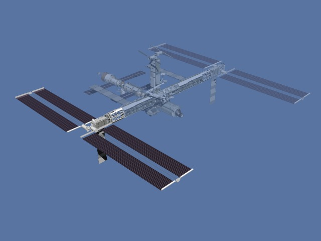 Second starboard truss segment (S3/S4) is delivered and installed. The third set of solar arrays is deployed. P6 starboard solar array wing and one radiator are retracted.